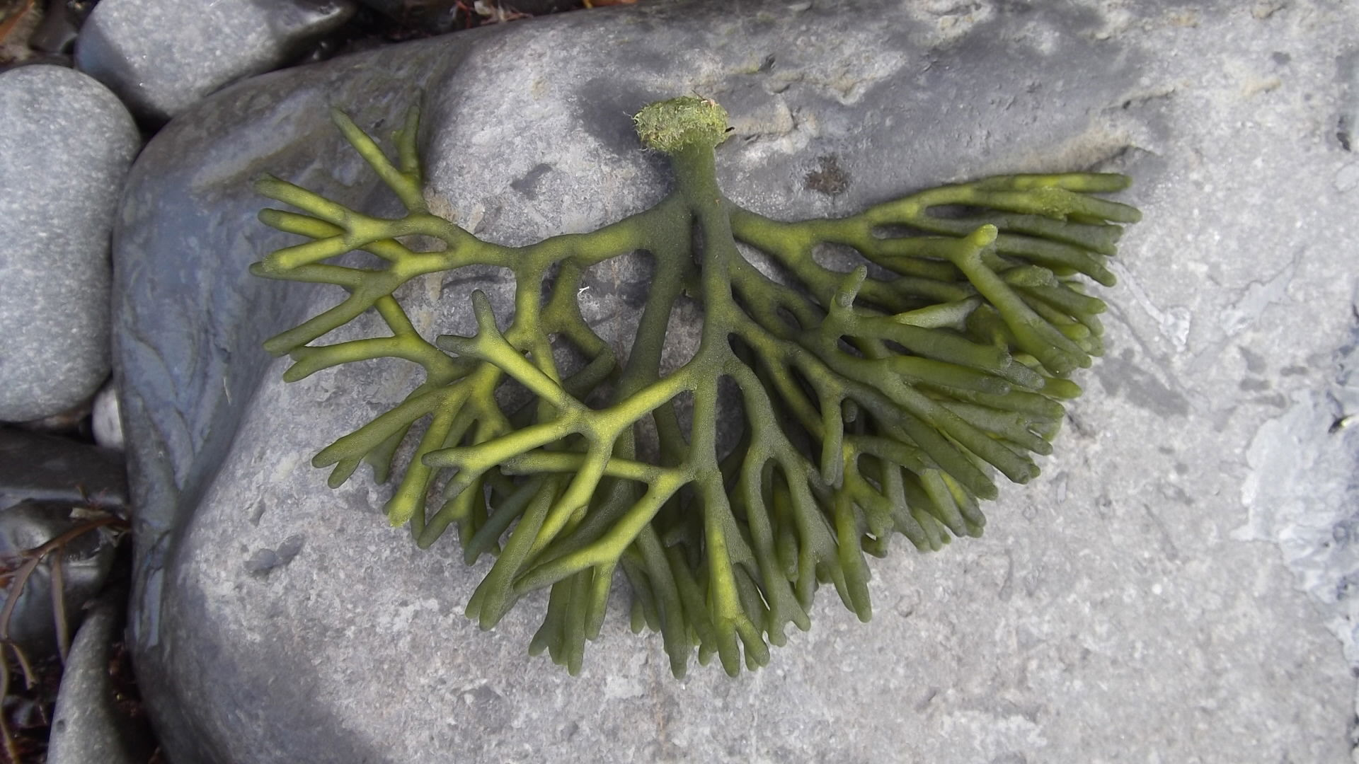 Codium tomentosum, at Kimmeridge Bay, Dorset.